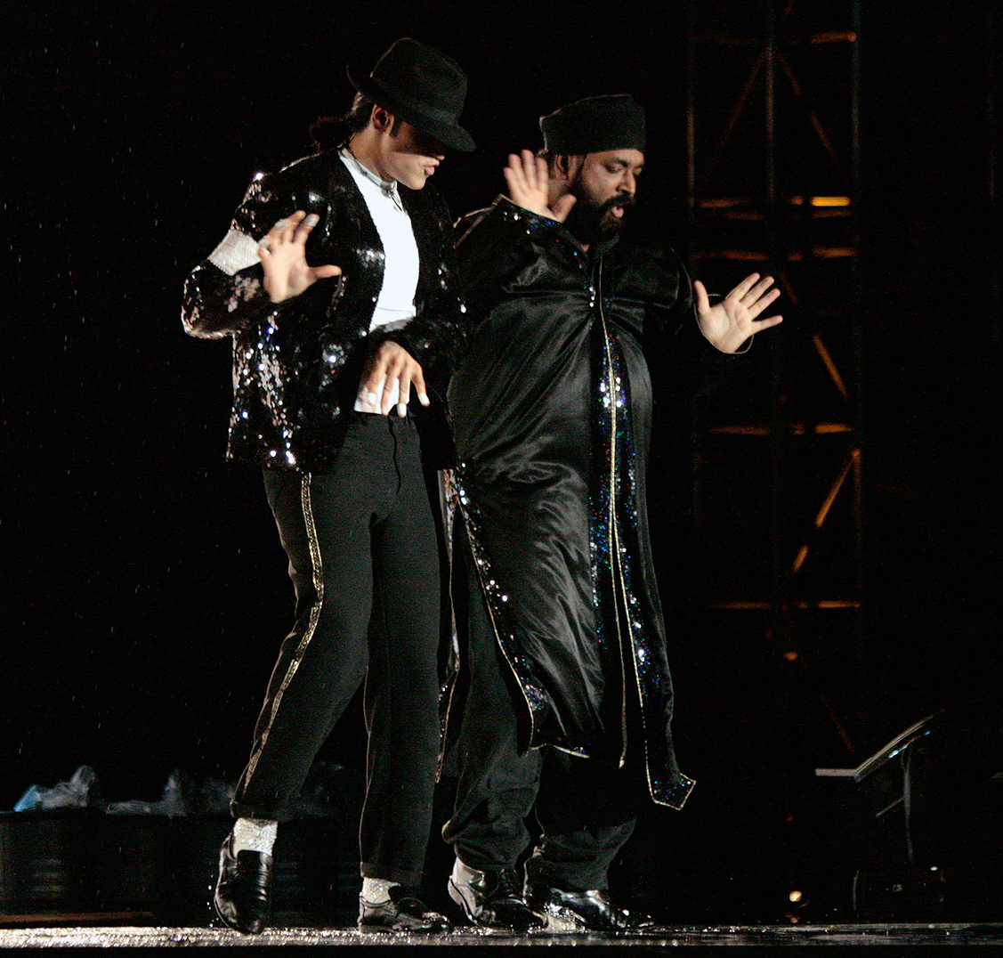 Suleman Mirza and Madhu Singh (Signature) at the Save the World Awards 2009 (Zwentendorf Nuclear Power Plant, Lower Austria).